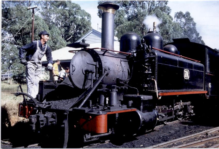 Victorian Railways Class NA 2-6-2T 7A at Menzies Creek Puffing Billy Railway